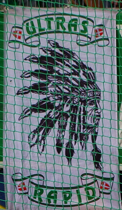 supporters of SK Rapid Wien